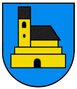 Coat of arms of Bergfelden in Sulz am Neckar